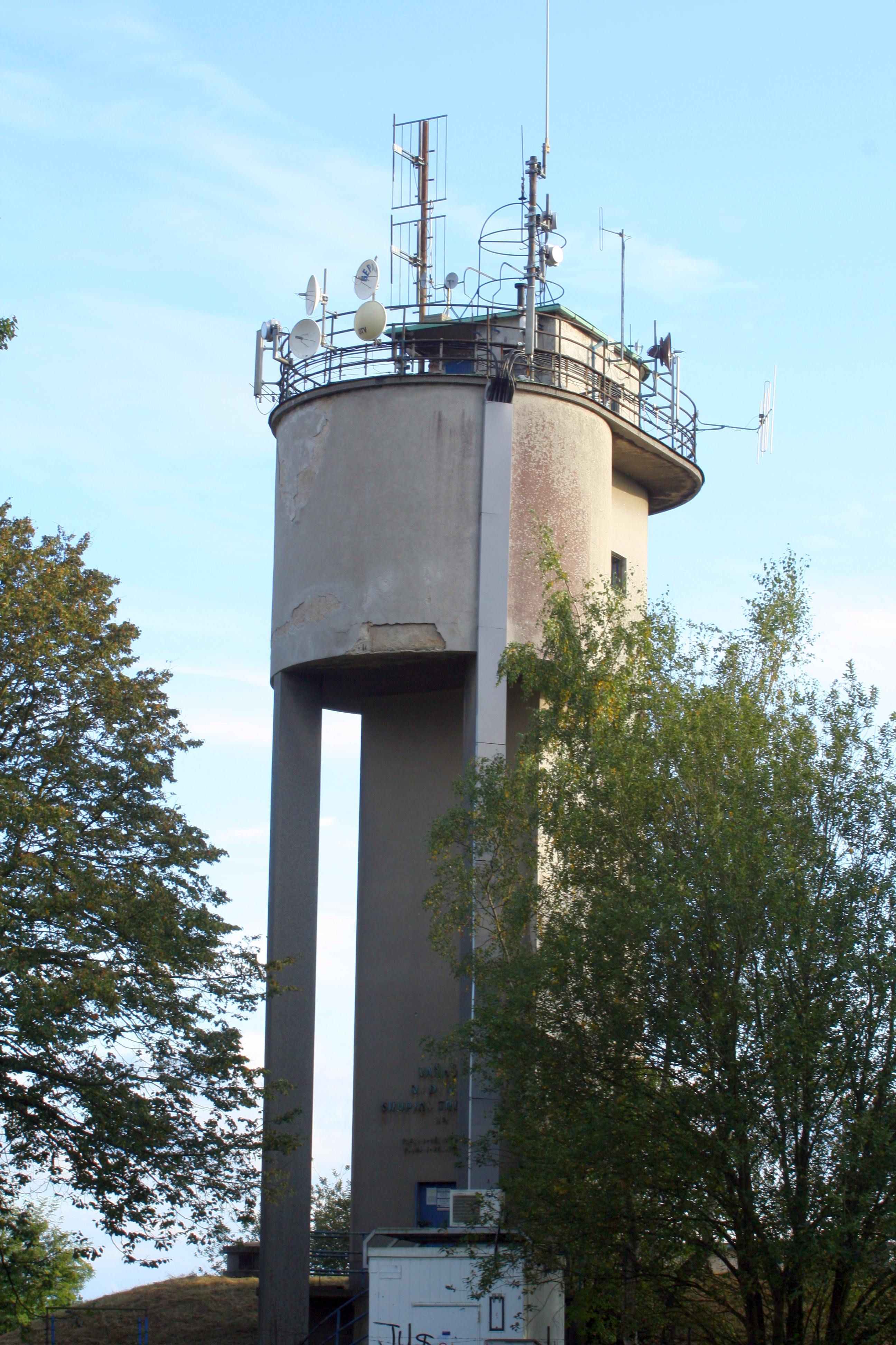 Vaněk's water tower in Třebíč, Czech Republic.